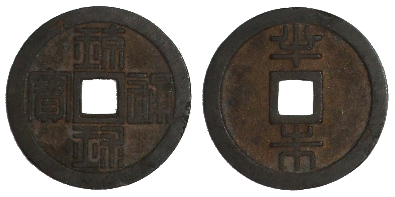 Ryukyu-tsuho-hanzyu